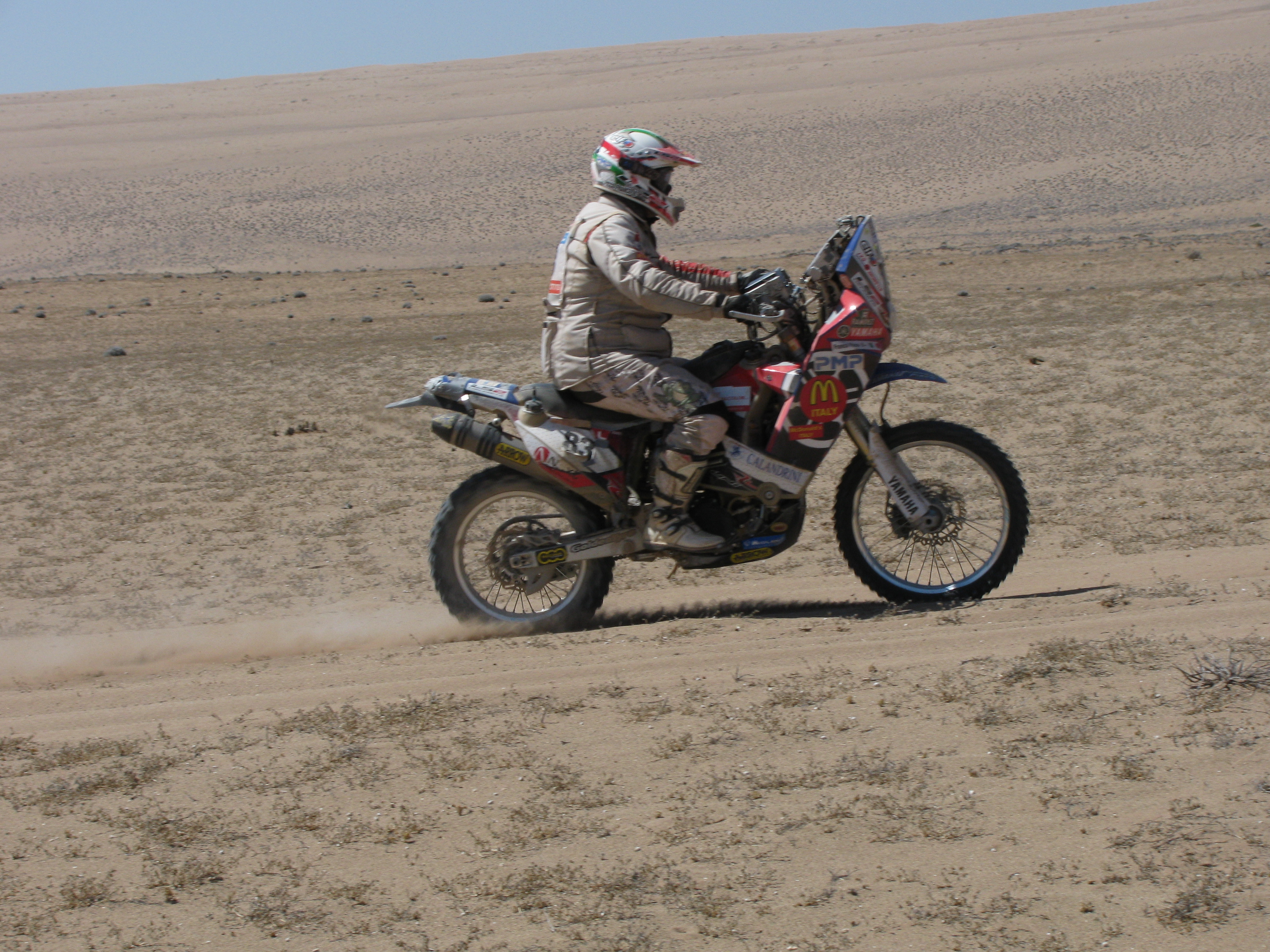 Franco Picco, Italia, Yamaha WRF 450, Dakar 2011, Copiapó.